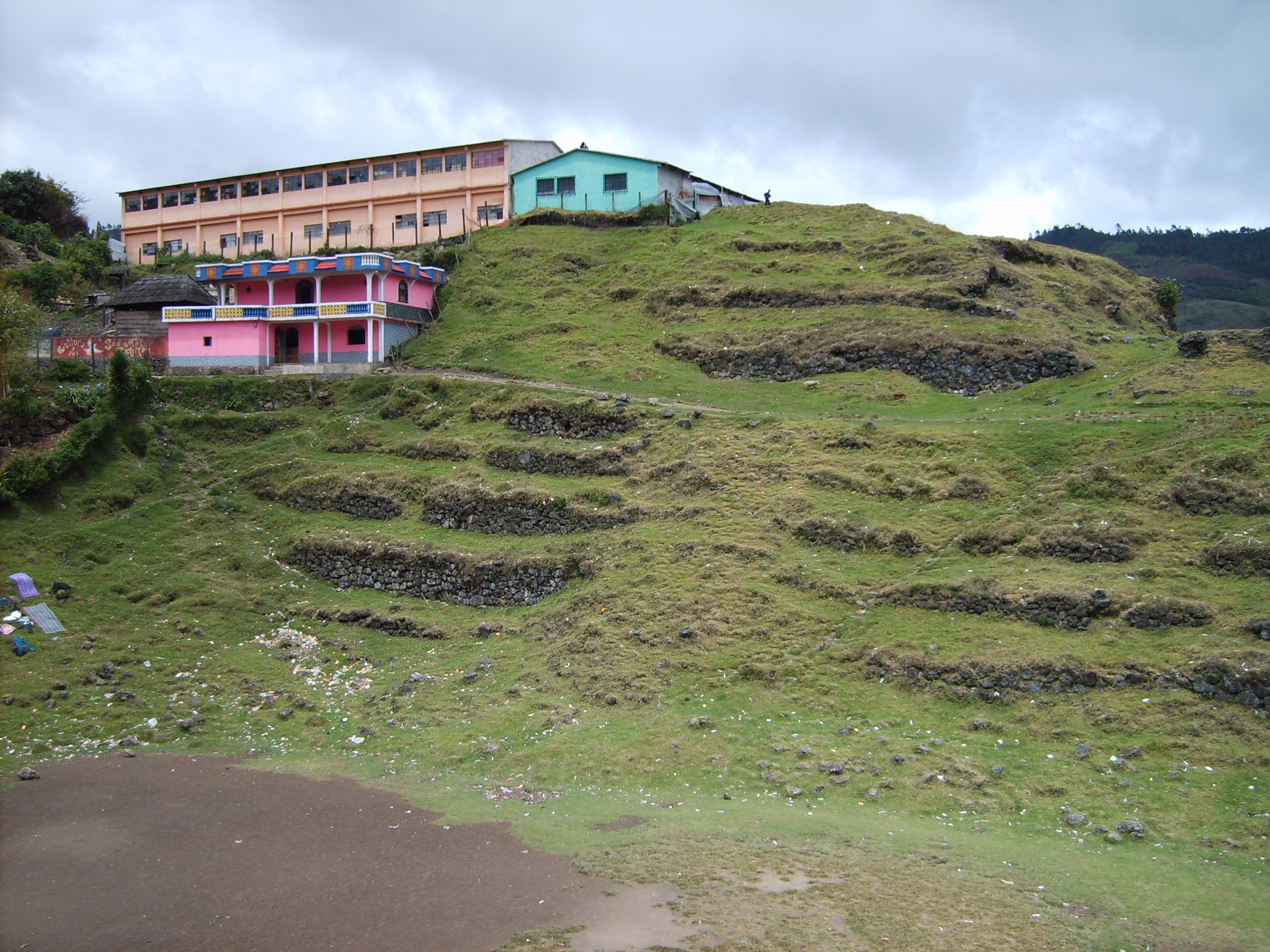 School built on Maya ruins at San Mateo Ixtatán, Huehuetenango department, Guatemala.